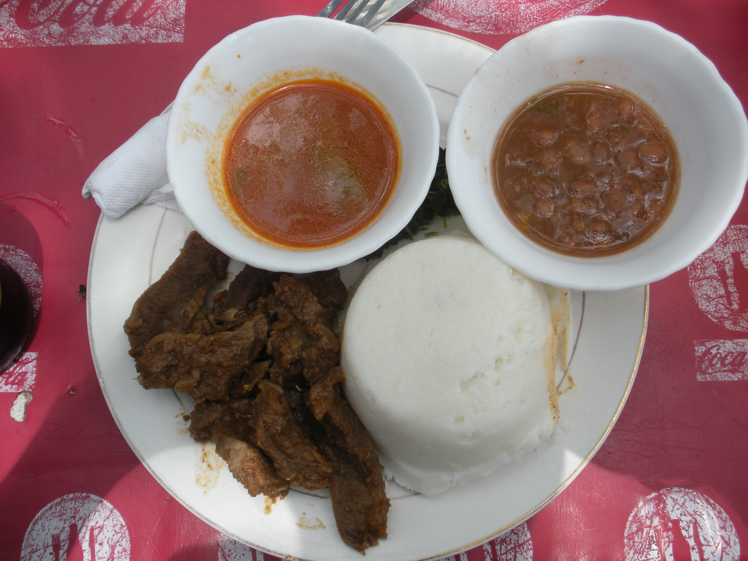 Ugali with beef and sauce, This photo has been taken by Mr.Chen Hualin in a bar inside the University of Dar es Salaam.